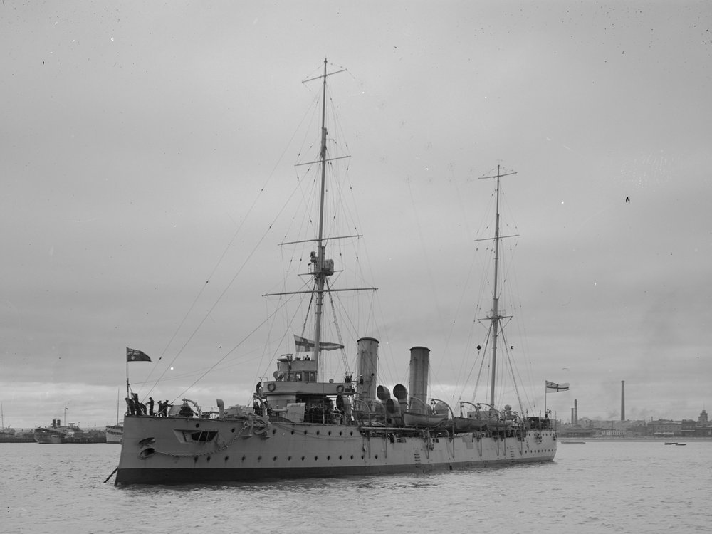 HMAS Pioneer.